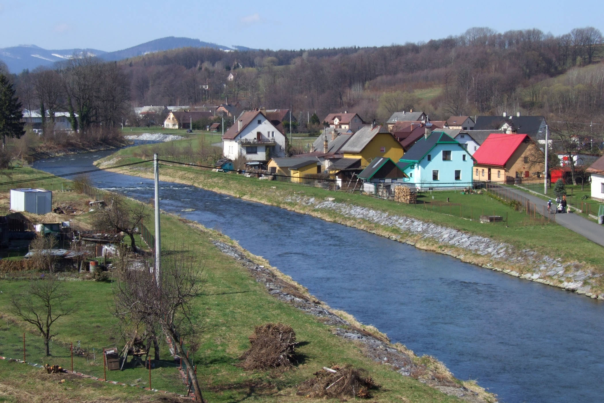 River Bělá Jesenická (German: Biela) in Mikulovice, Czech Silesia